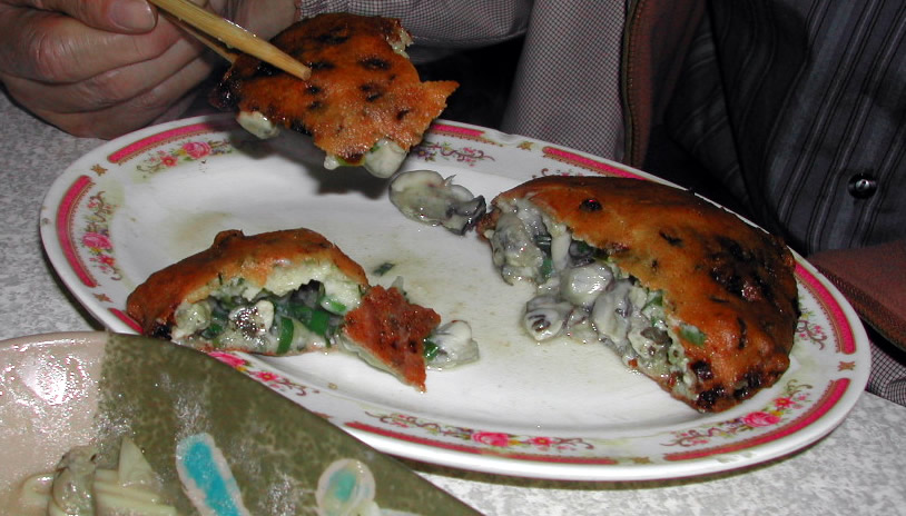 Taiwanese oyster omelet. The type shown above is the Changhua variety which differs slightly from the type served in other parts of Taiwan. Author/copyright owner: A-giâu. Taken in 2004, Lo̍k-káng (Lukang), Taiwan.